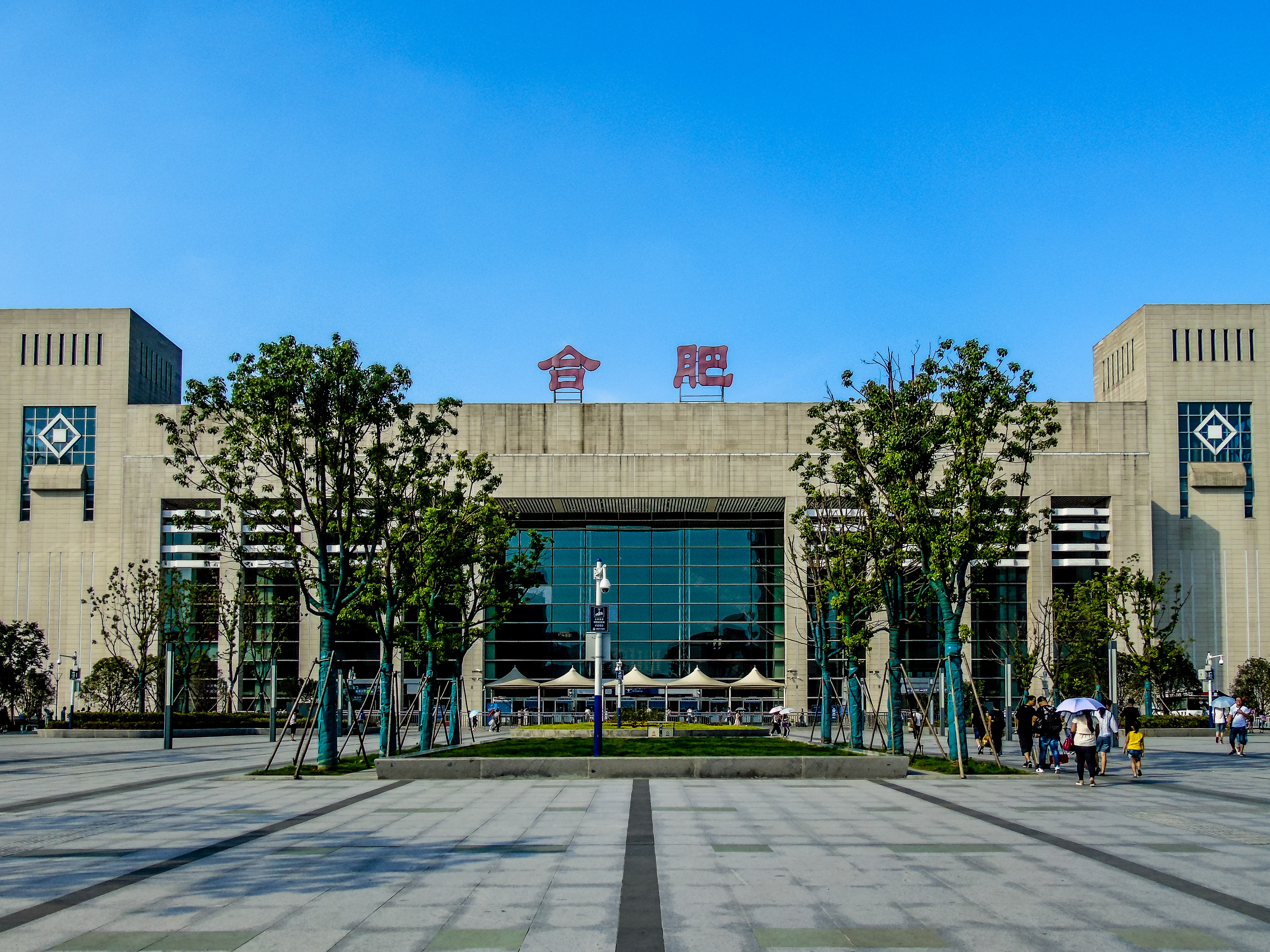 Hefei Railway Station 1